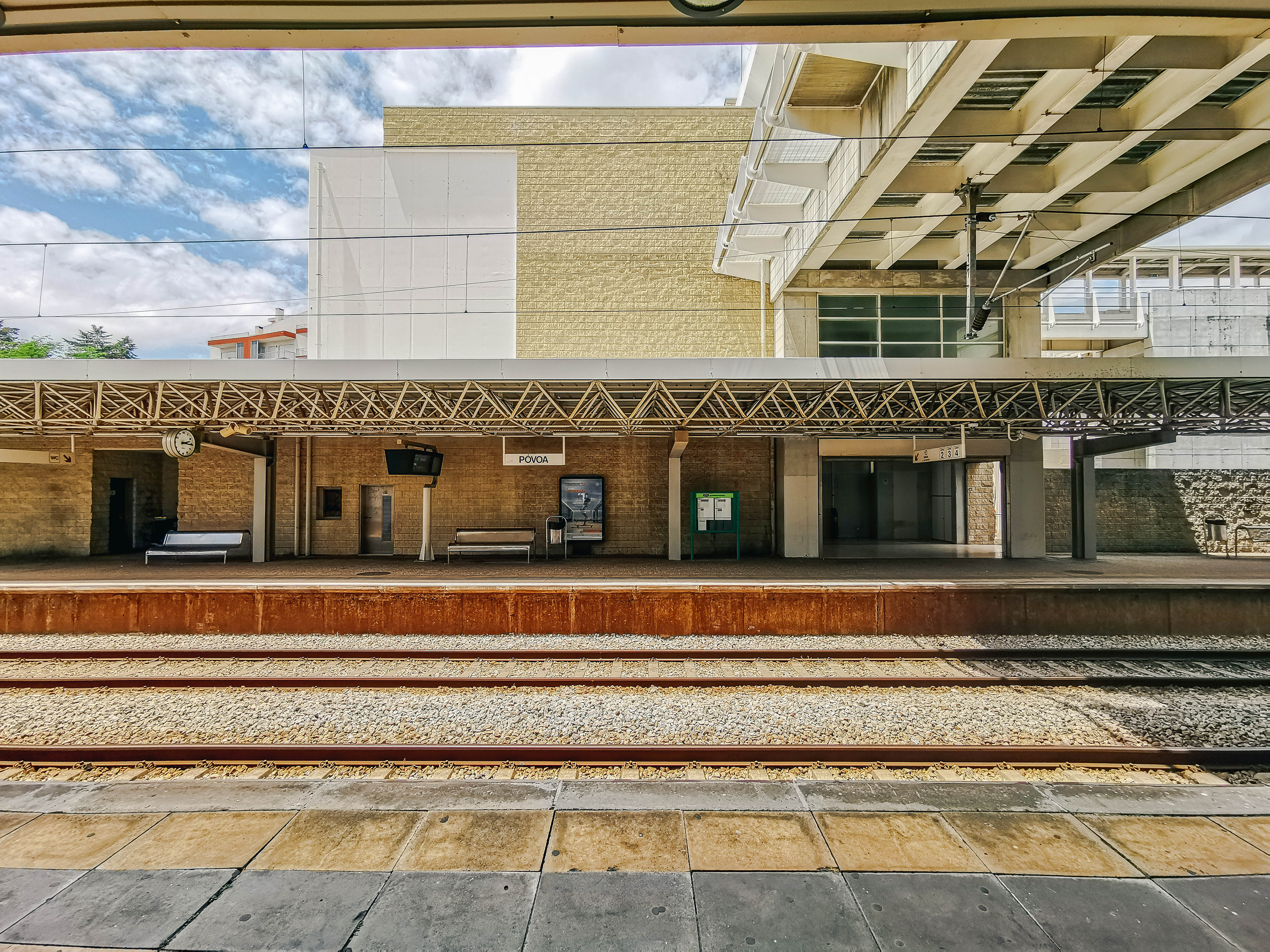 Platform 1 at Póvoa train station, Portugal